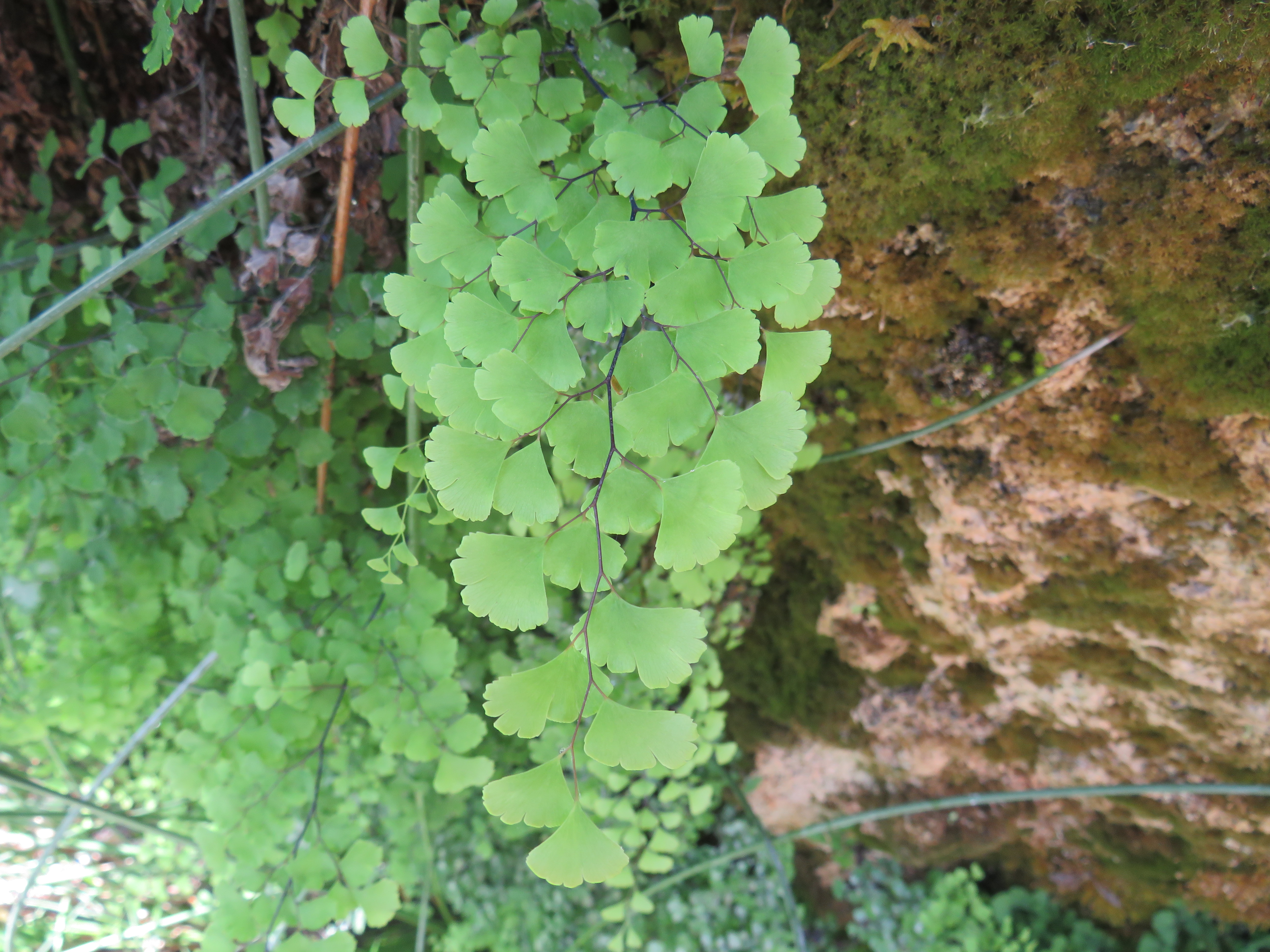 Maidenhair fern (Adiantum capillus-veneris) in Anento (Zaragoza, Spain).